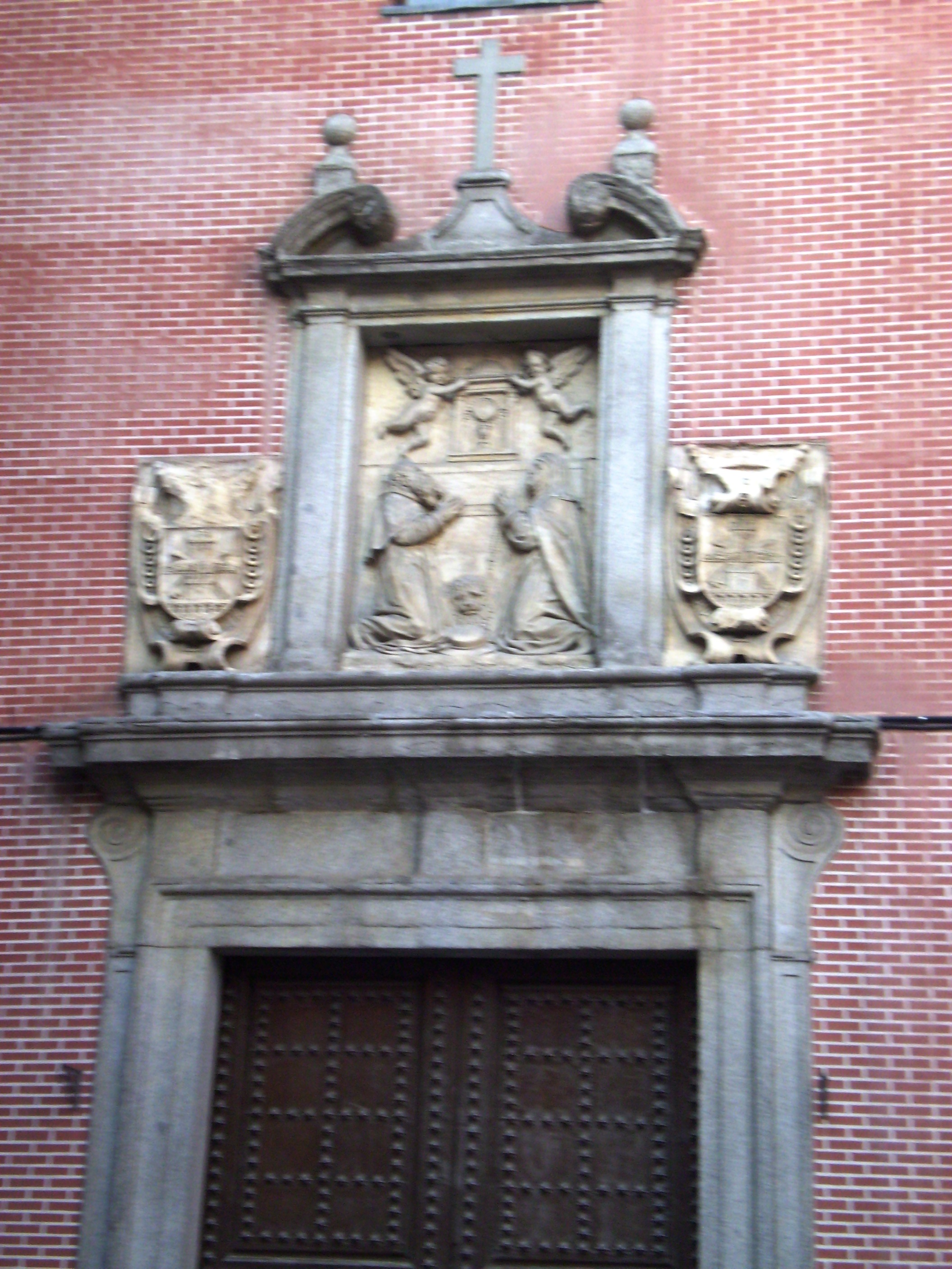 Monastery of Corpus Christi (Carboneras), Madrid, Spain